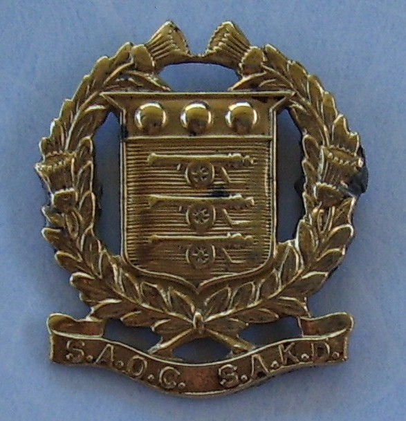 Before World War I, the supply and maintenance of all technical stores and equipment, including ammunition and guns, was the responsibility of the South African Ordnance Corps. Reorganisation was in progress when the World War II broke out, and in November 1939 the SA Ordnance Corps, the SA Service Corps and the SA Administrative, Pay and Clerical Corps were replaced by the Technical Services Corps and the 'Q' Services Corps